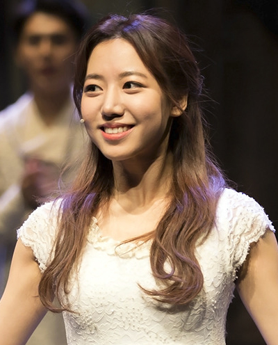 Apink's Kim Namjoo performs as Juliet in Sunkyunkwan University's production of Rome and Juliet on December 2nd, 2017